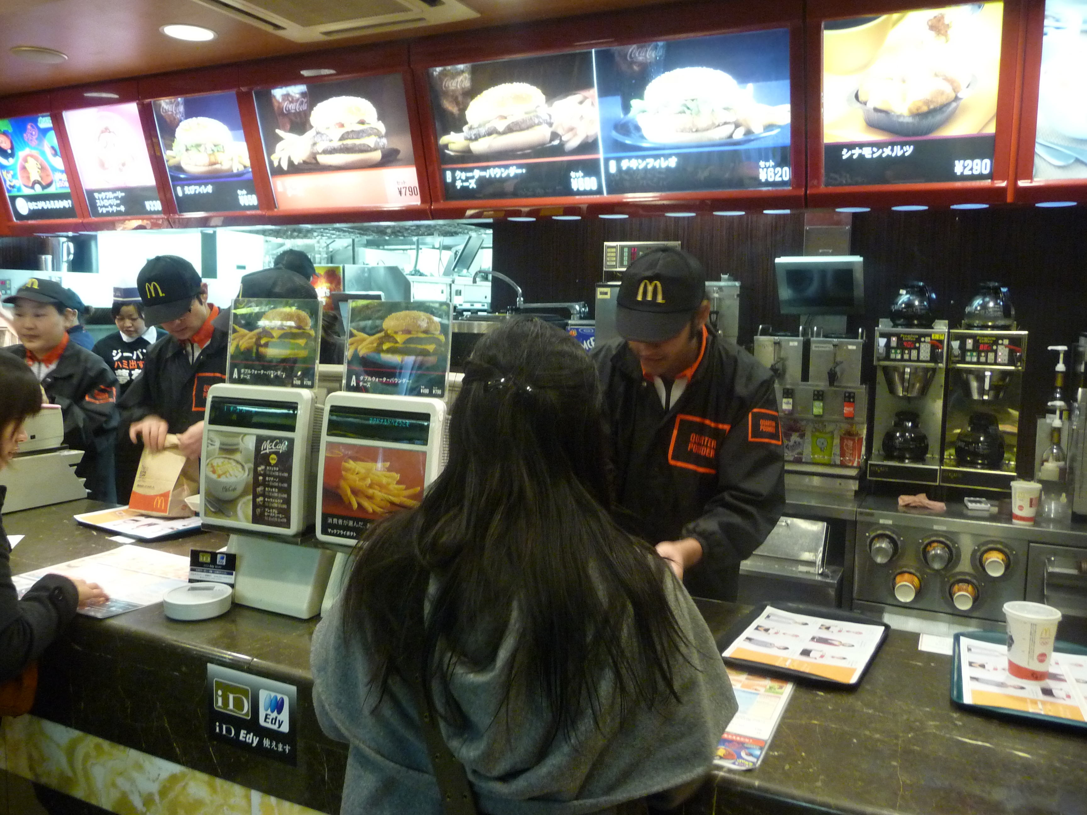 In Japan, McDonald's has very simplified poster menus up front and the more detailed version pasted on the counter. I don't like it very much.